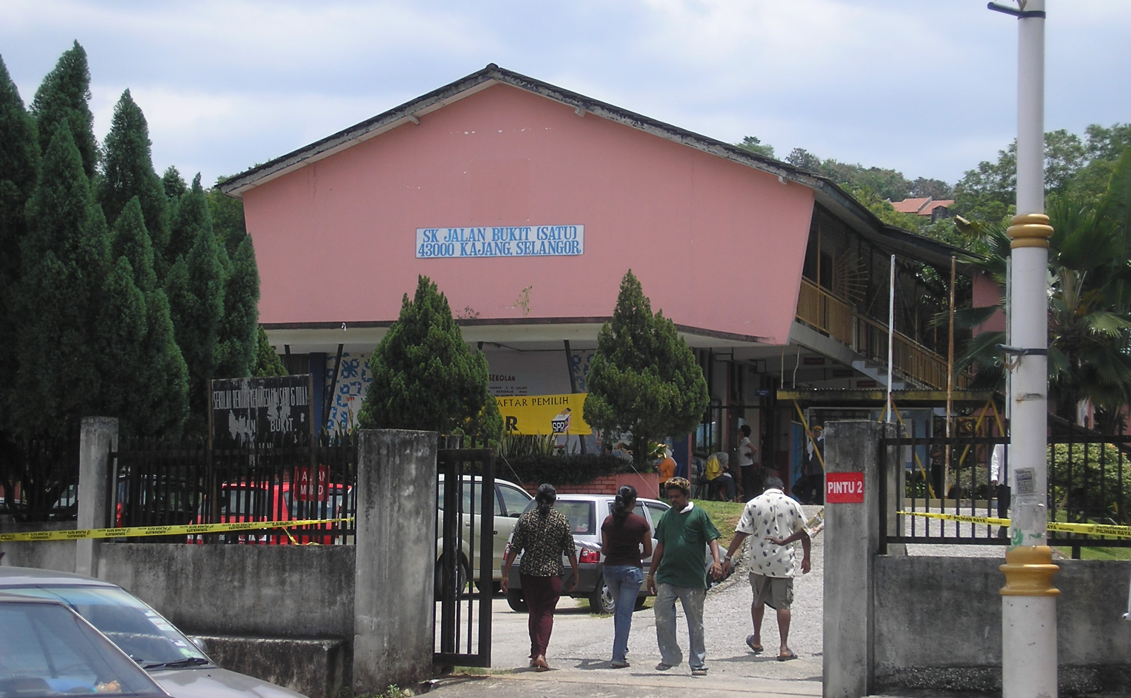 A school in Kajang, Selangor, Malaysia in use as a polling station for the 2008 Malaysian general election.